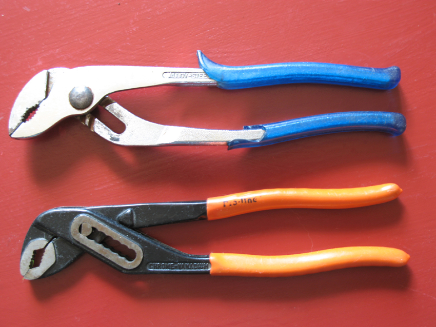 Vandpumpetang, Universaltang eller Papegøjenæb. Photo: B. M. Askholm 18 07 2006. This file was made by B. M. Askholm, Please credit this: B. Askholm foto An email to B. Mathias at baskholm(--) would be appreciated too.